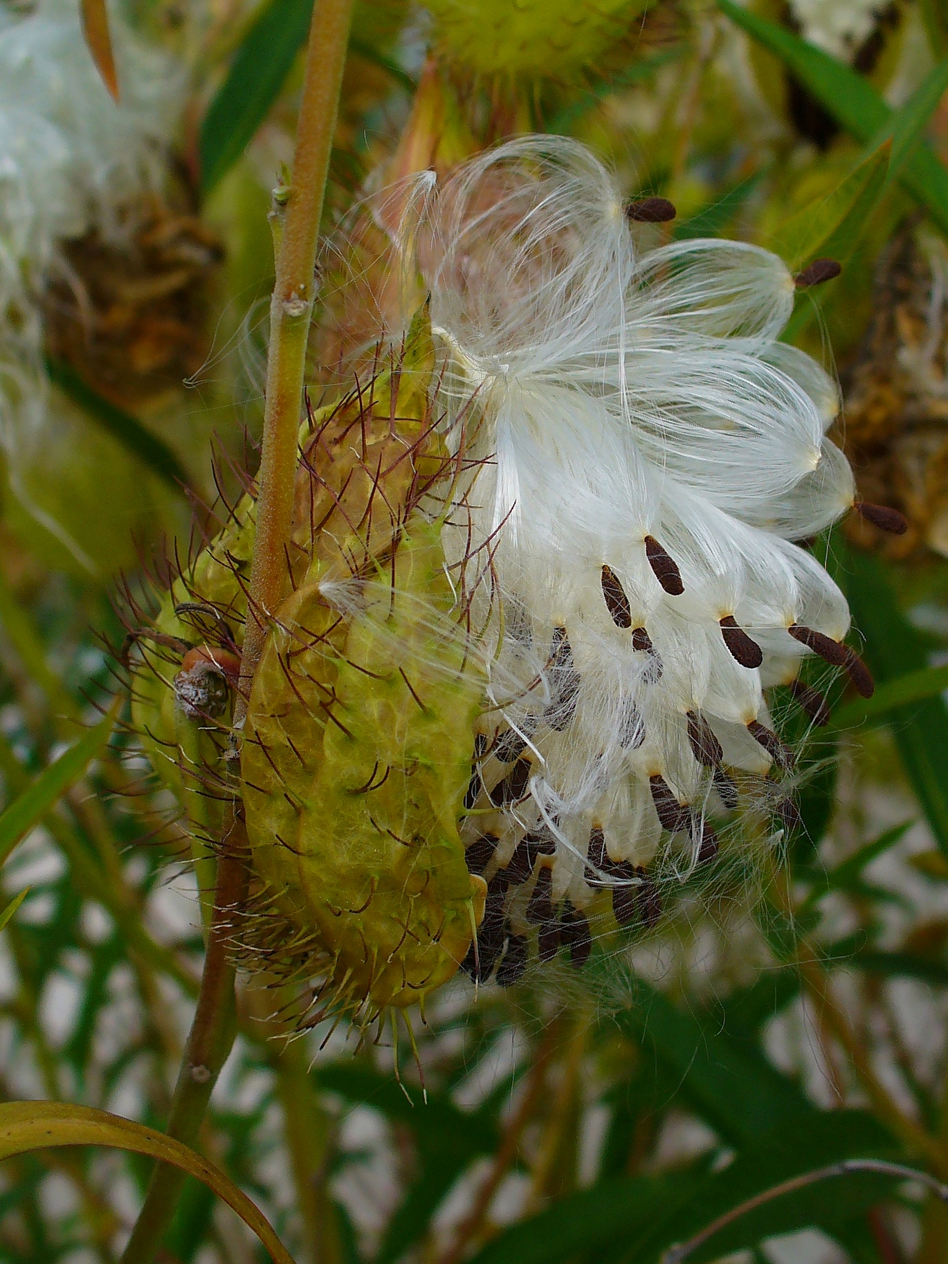 Gomphocarpus fruticosus, Apocyanaceae, Balloon Cotton, Cape Cotton, Duckbush, ripe fruit with seeds; Botanical Garden KIT, Karlsruhe, Germany.